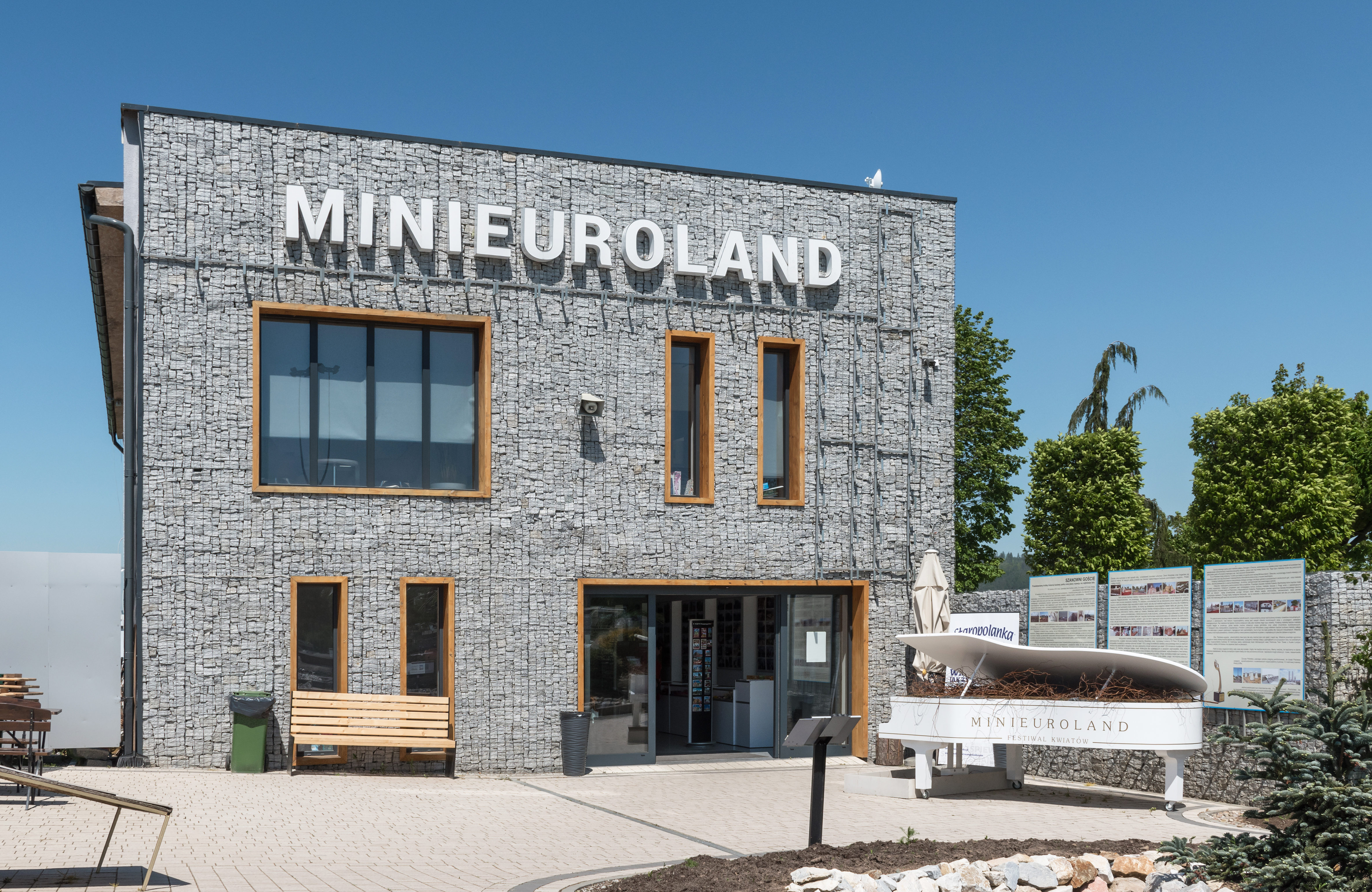 Minieuroland in Kłodzko